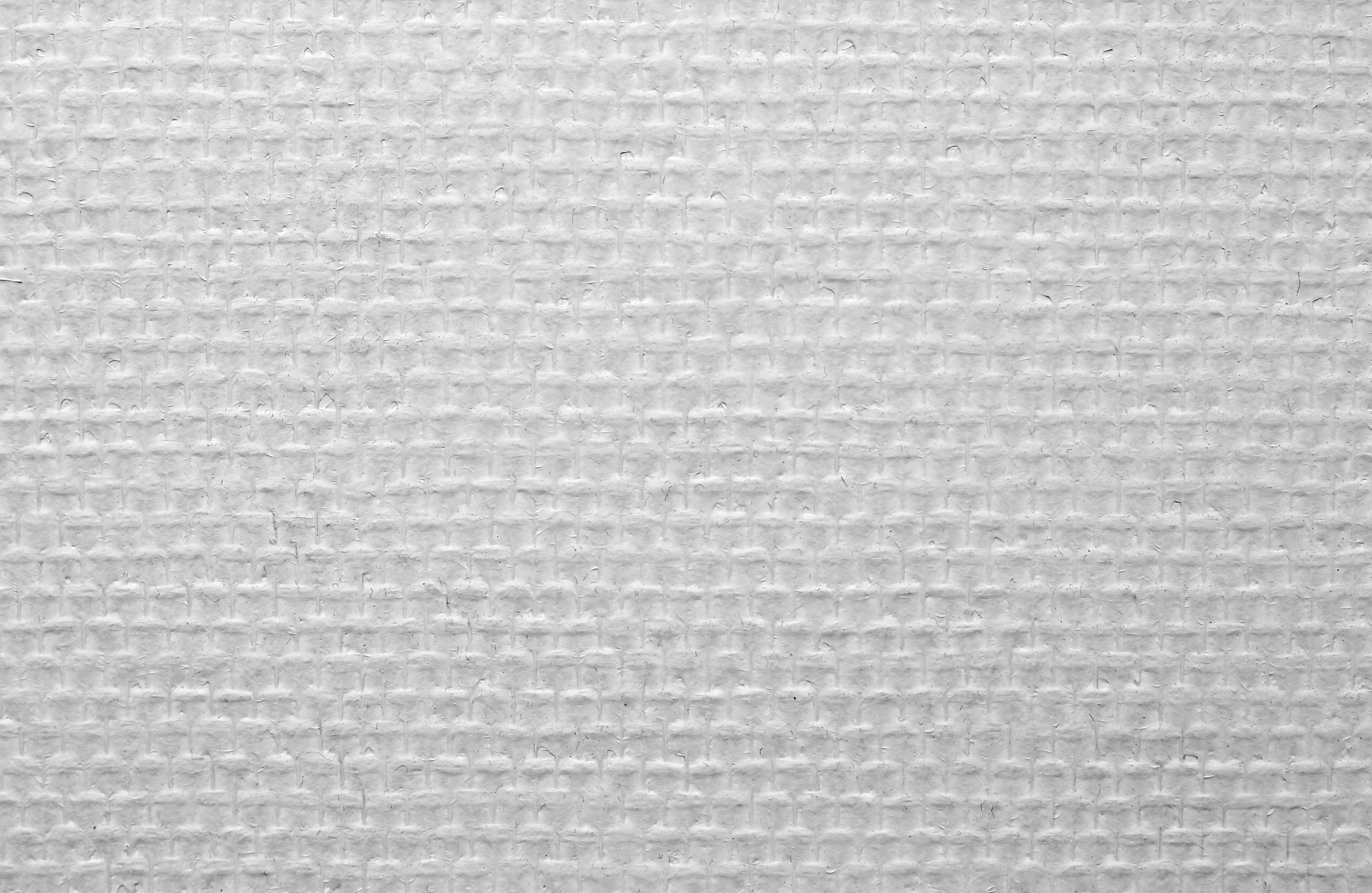 Wallpaper glass fiber texture.